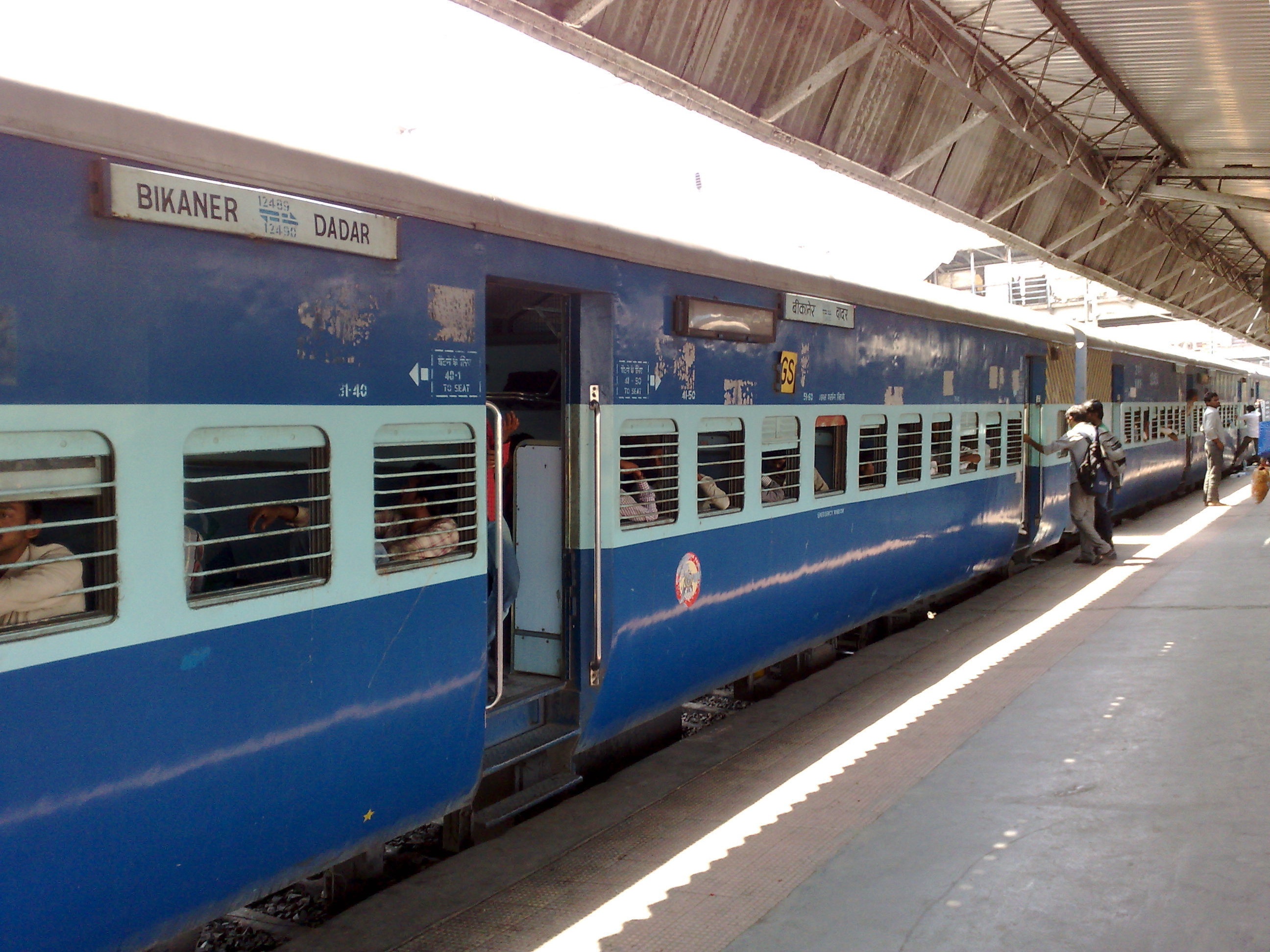 Bikaner Dadar Superfast Express - 2nd Class seating coach